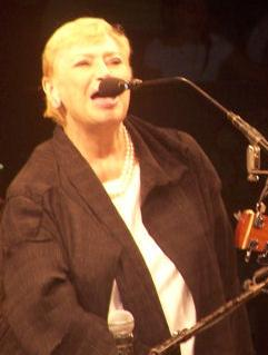 Peter, Paul and Mary onstage at the Westbury Music Fair, Westbury, NY on August 5, 2006. I'm very proud of this photograph. BassPlyr23 21:23, 24 August 2007 (UTC)